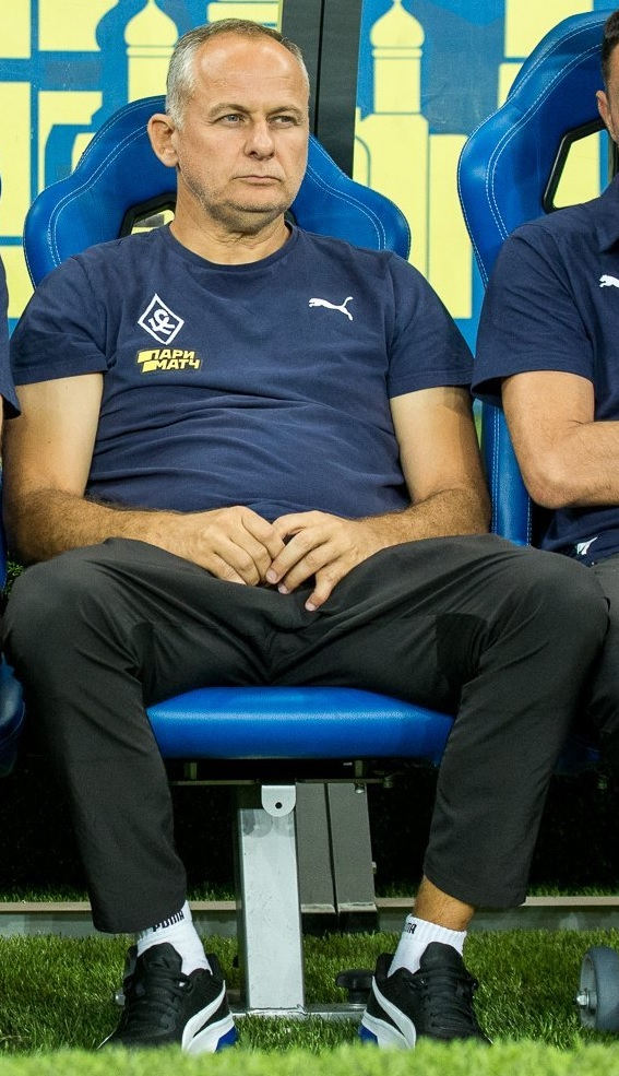 Saša Petrović as a coach of PFC Krylia Sovetov Samara during a game against FC Rostov.